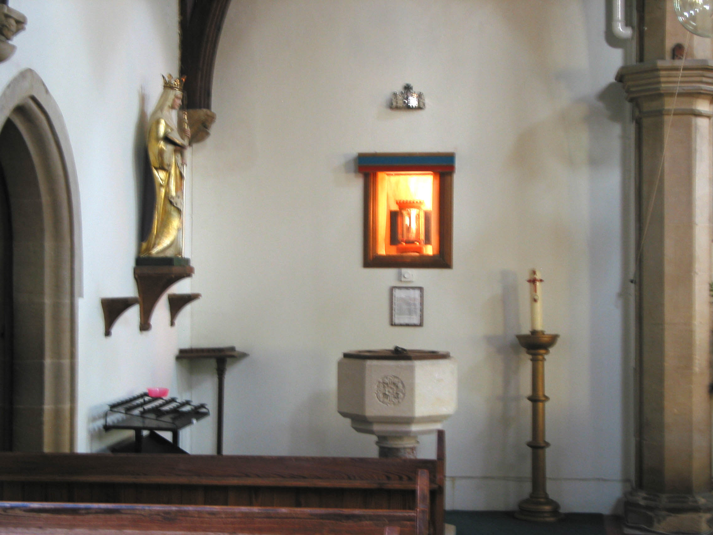 Photo of the shrine area showing the relic and statue